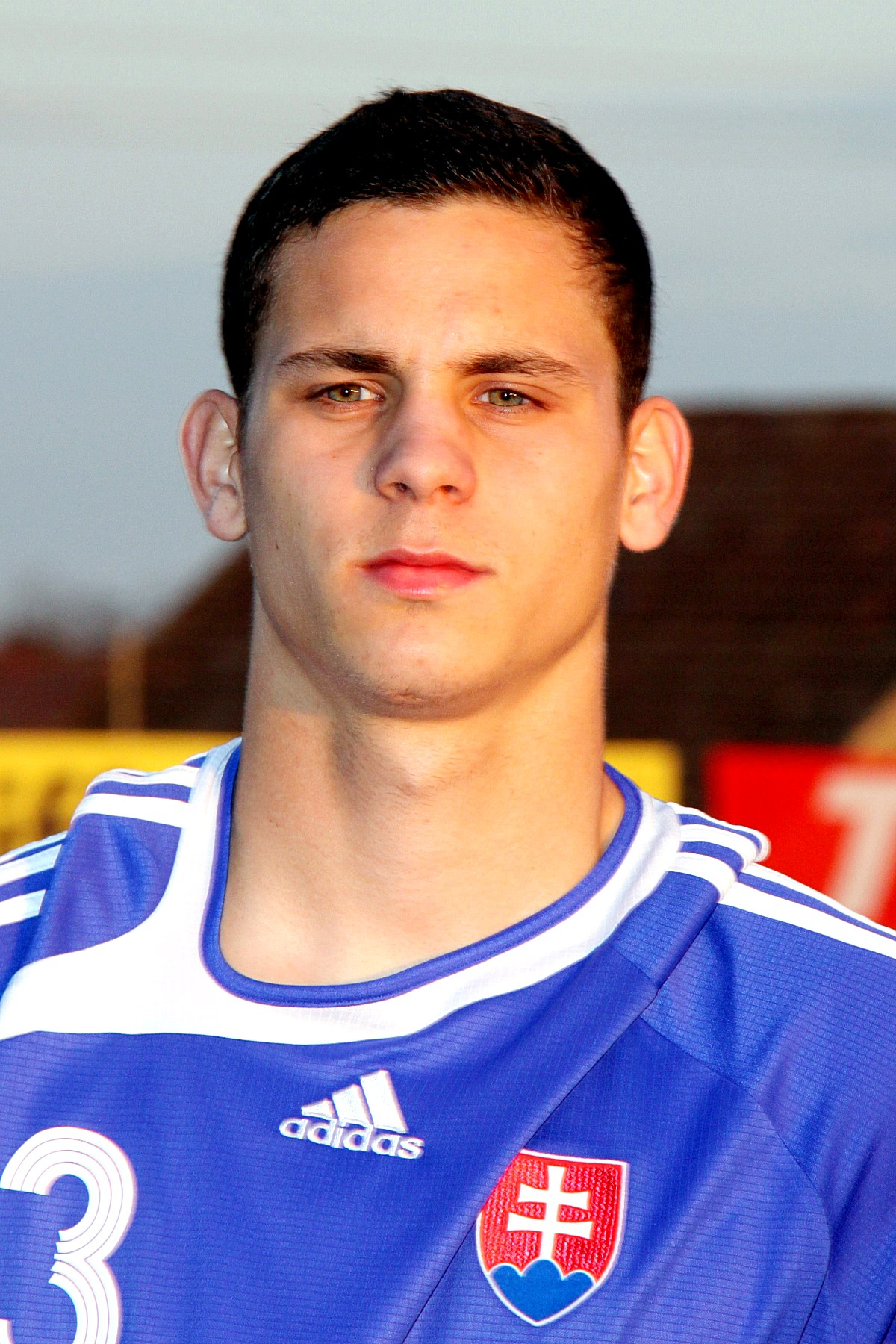 Kristián Koštrna (Wolverhampton Wanderers) - in the U-19-friendly match Austria (class 1993) vs. Slowakia (class 1993). Object location47° 44′ 53.87″ N, 16° 28′ 58.97″ E